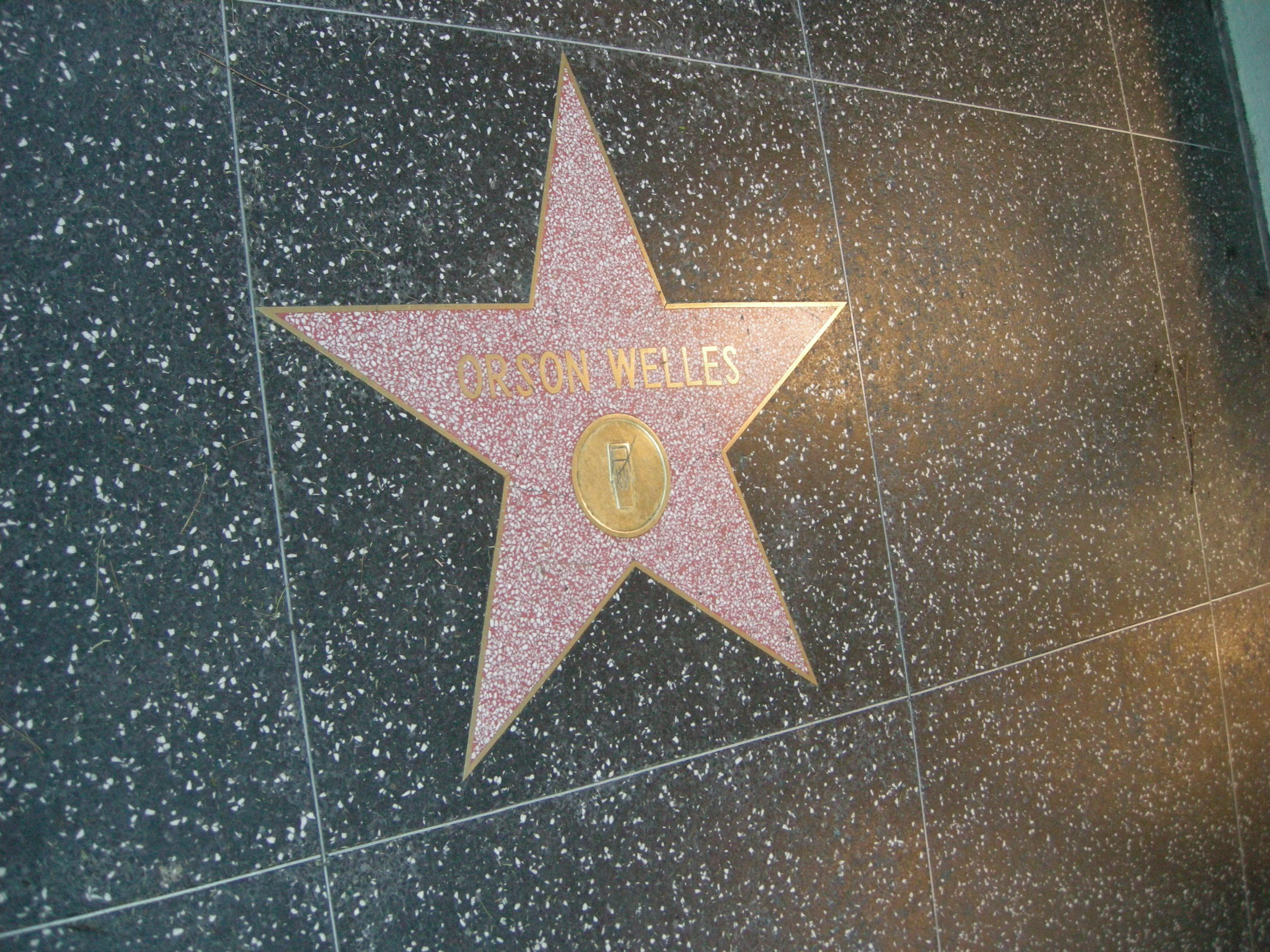 Walk of fame, orson welles